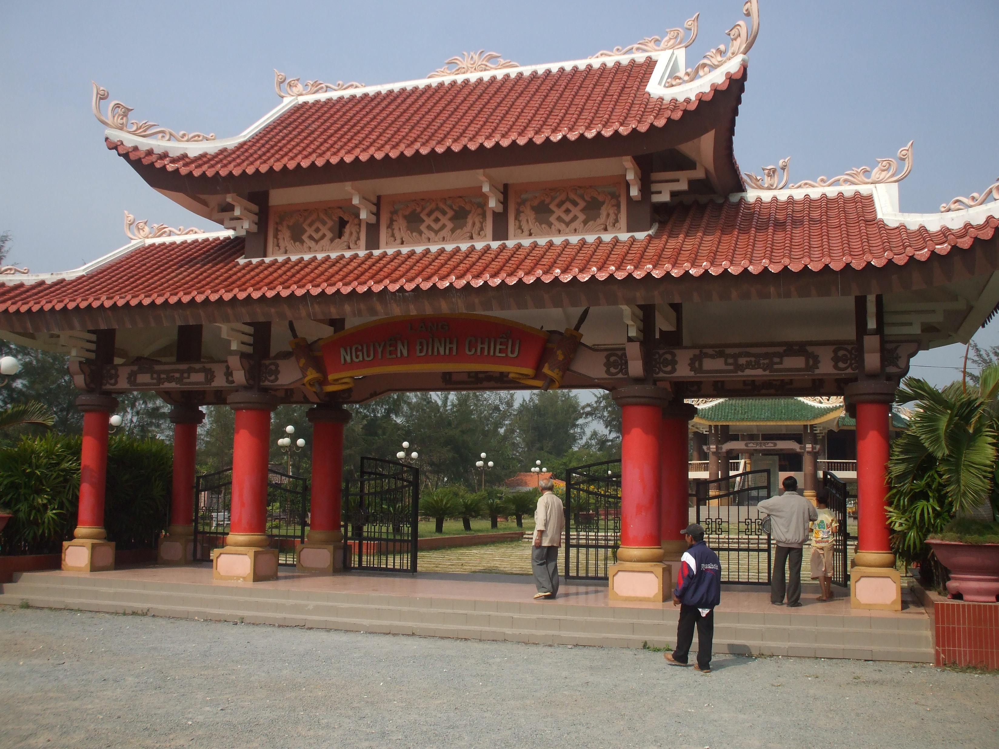 Tomb of Nguyen Dinh Chieu